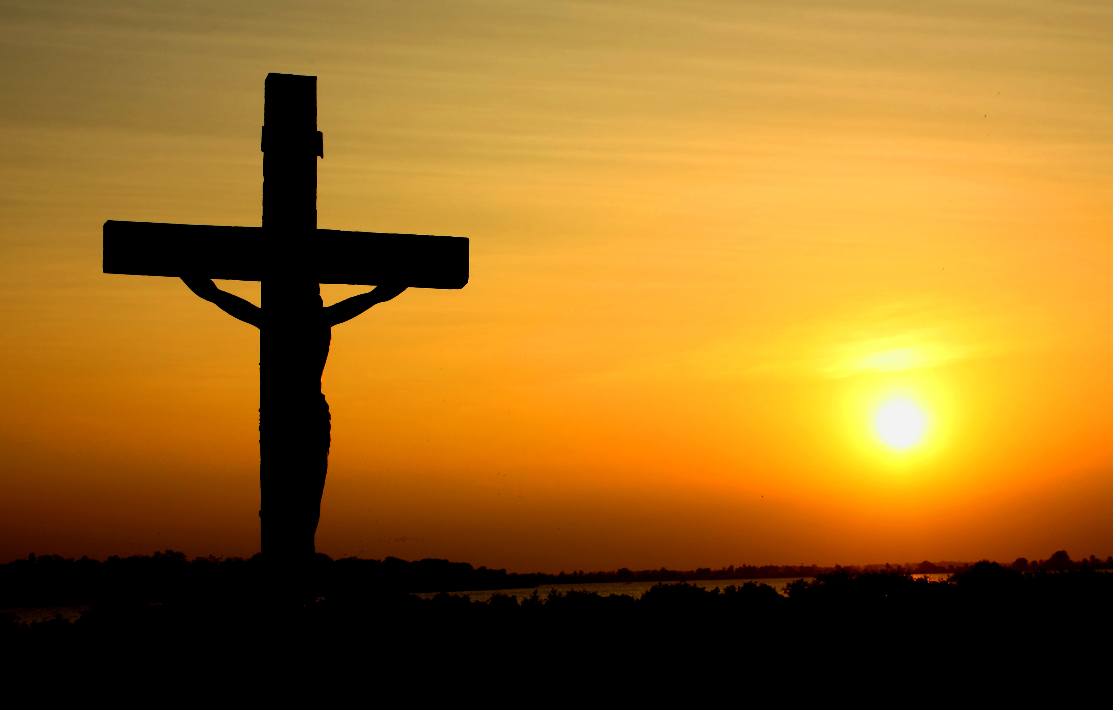 Cross in sunset / silhouette. Image taken in Batticaloa, Sri Lanka